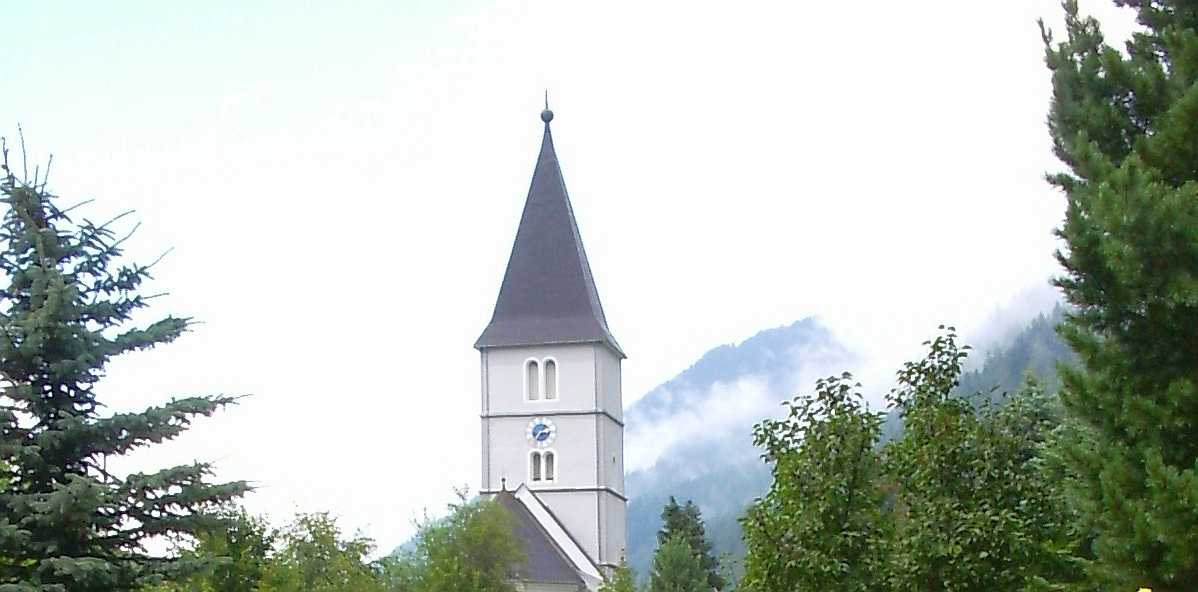 Pusterwald, Church.